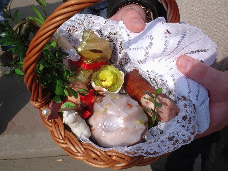 Holy Saturday; the blessing of the Easter baskets, Sanok